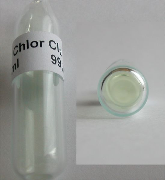 3 ml chlorine